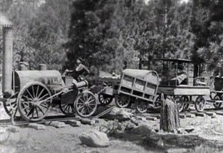 Screen shot from Our Hospitality (1923) showing Buster Keaton's use of his replica of the Stephenson Rocket